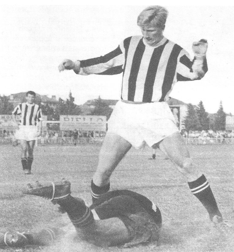 Swedish footballer Arne Bengt Selmosson in action with A.C. Udinese in the 1954–55 season; in the background, teammate László Szőke.